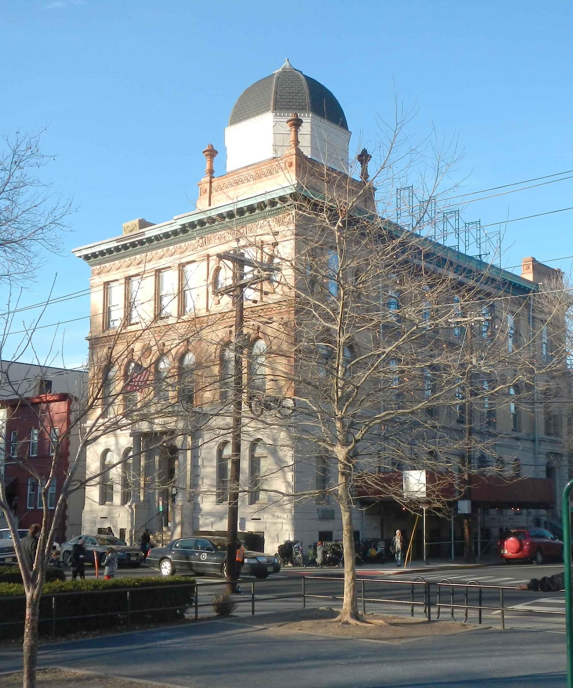 Looking northwest at Hoboken Public Library on a sunny afternoon.